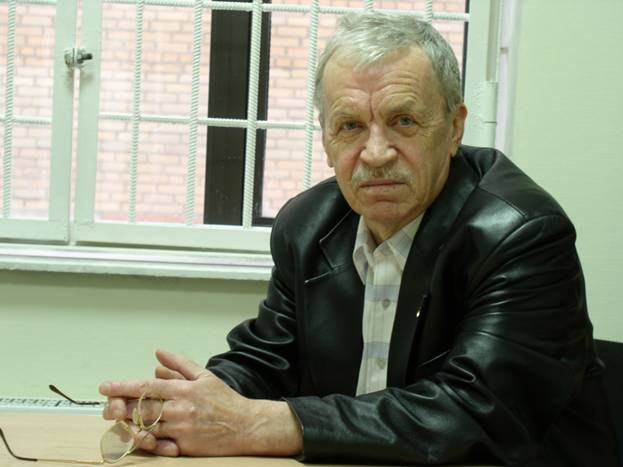 Russian writer Victor Levashov